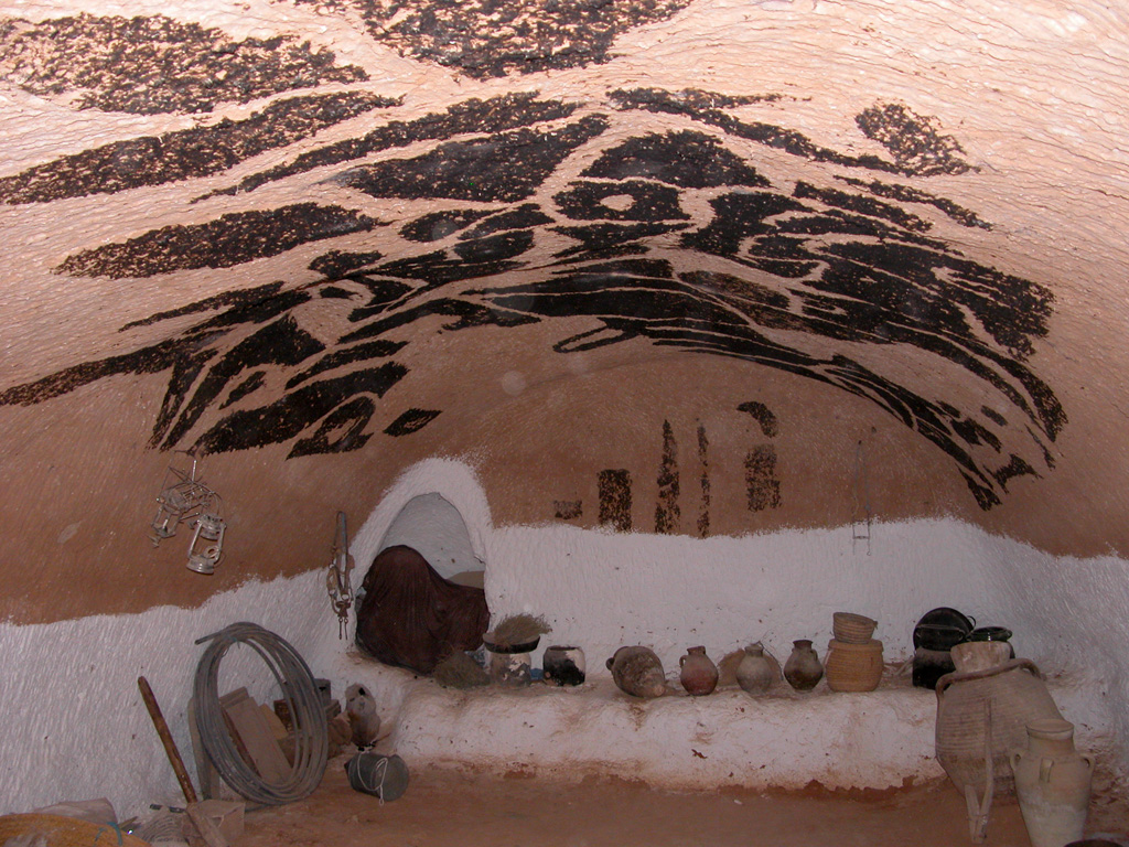 Tryglodytic Berber house in Matmata, Tunisia